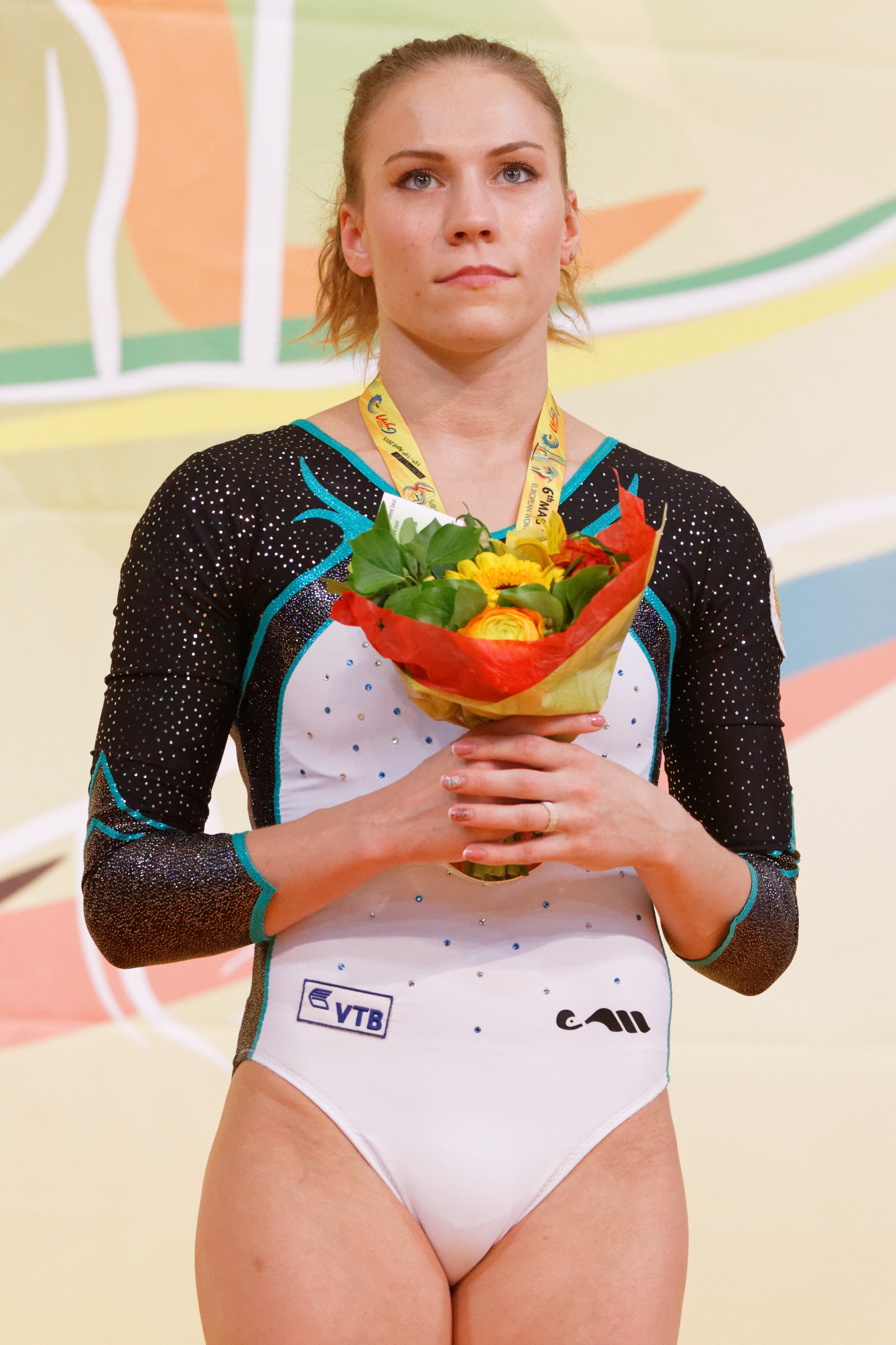 2015 European Artistic Gymnastics Championships.